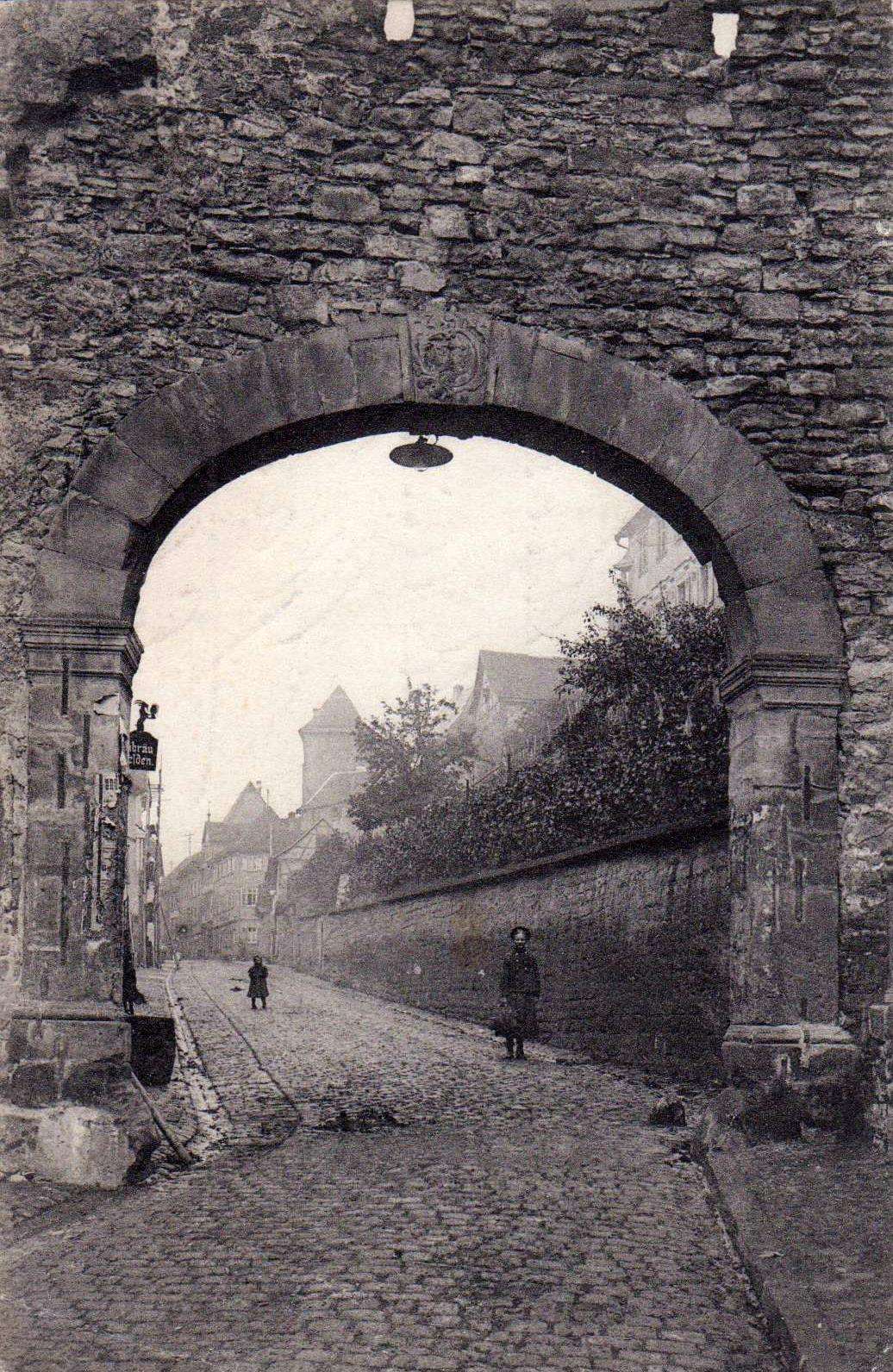 Bad Wimpfen (Germany). Stadttor - Unteres Tor (City gate). Hauptstraße 1. Postcard from 1906. Publisher: Zedler & Vogel. Darmstadt.